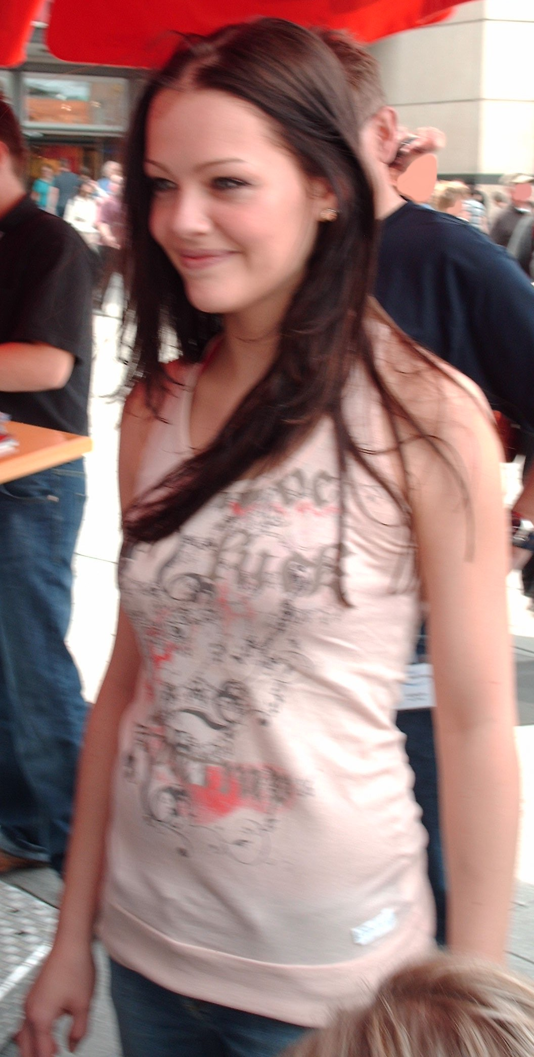 Kristina Dörfer check usage